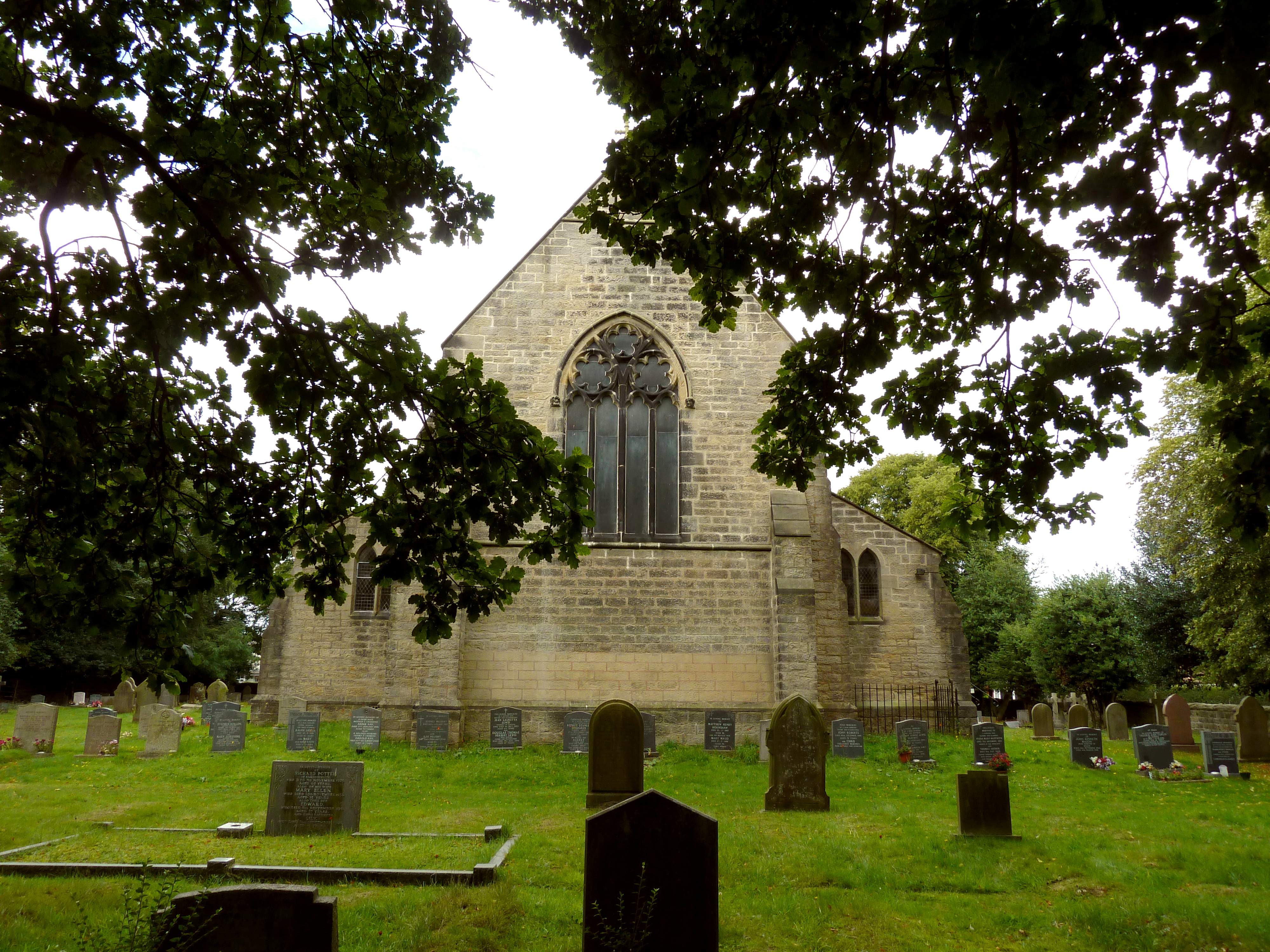 Church of St Thomas the Apostle, Anglican parish church at Killinghall, North Yorkshire, England. Designed by William Swinden Barber in 1879. East elevation.